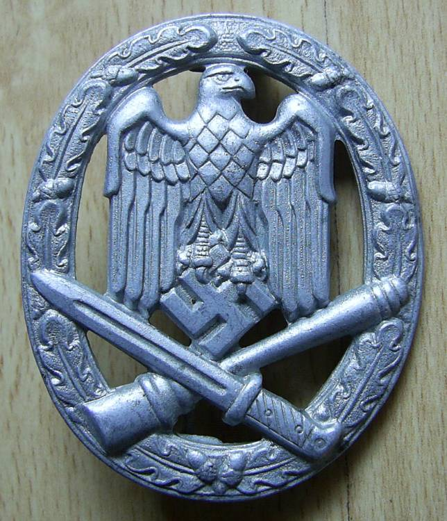 "Sturmabzeichen", commonly called the General Assault Badge